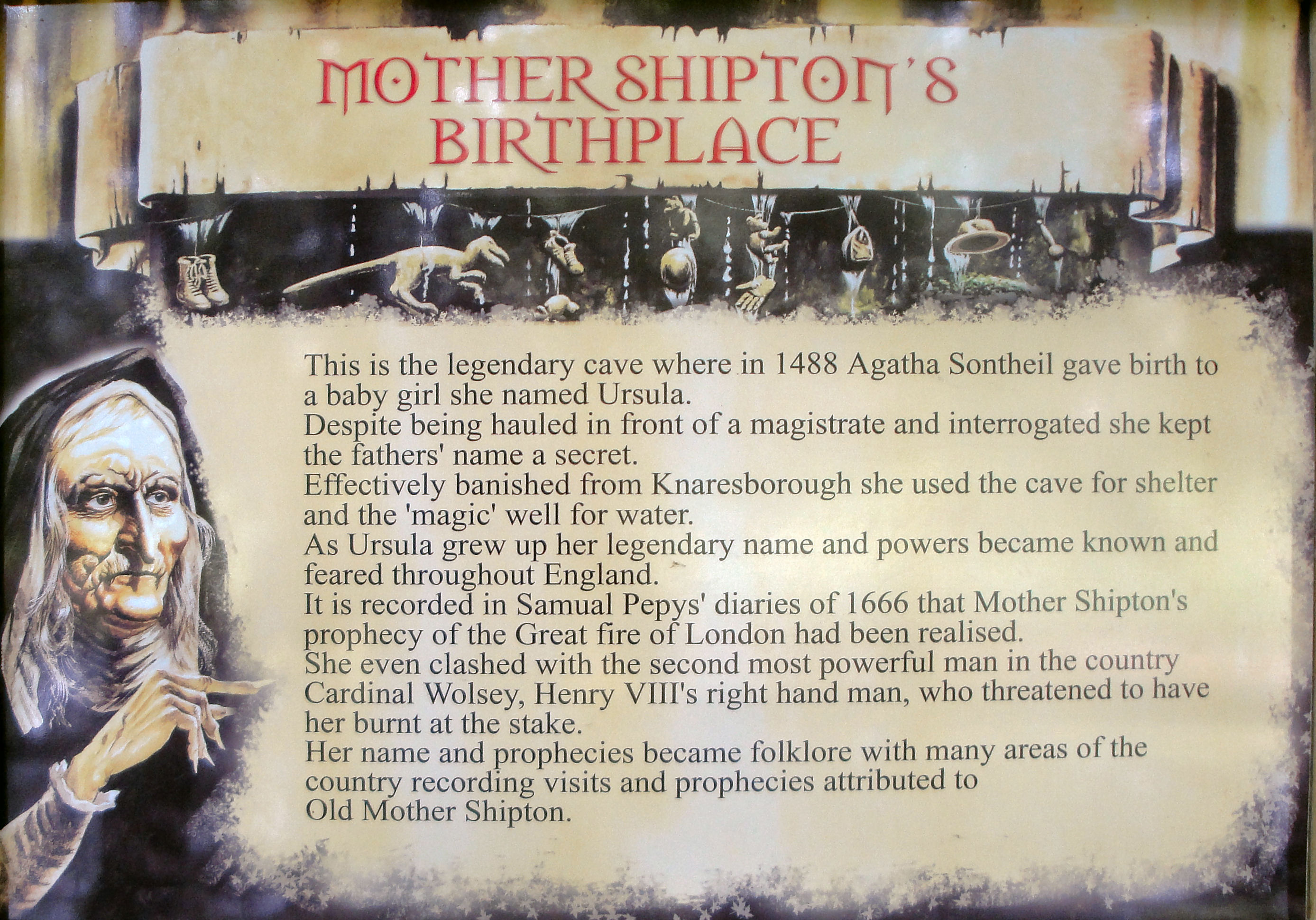 Information board at the entrance of Mother Shipton's cave in Knaresborough.